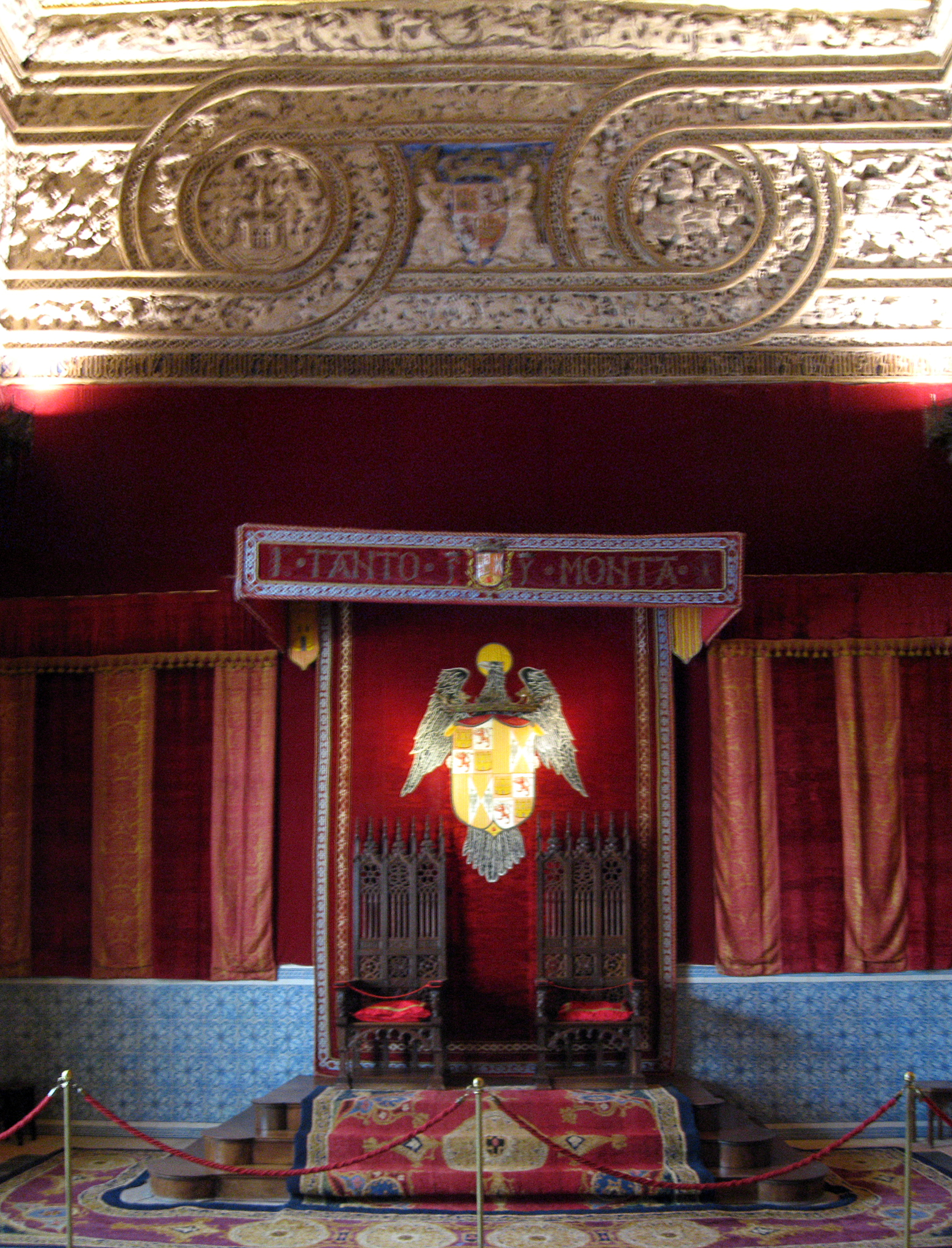 Throne room in the Alcázar of Segovia